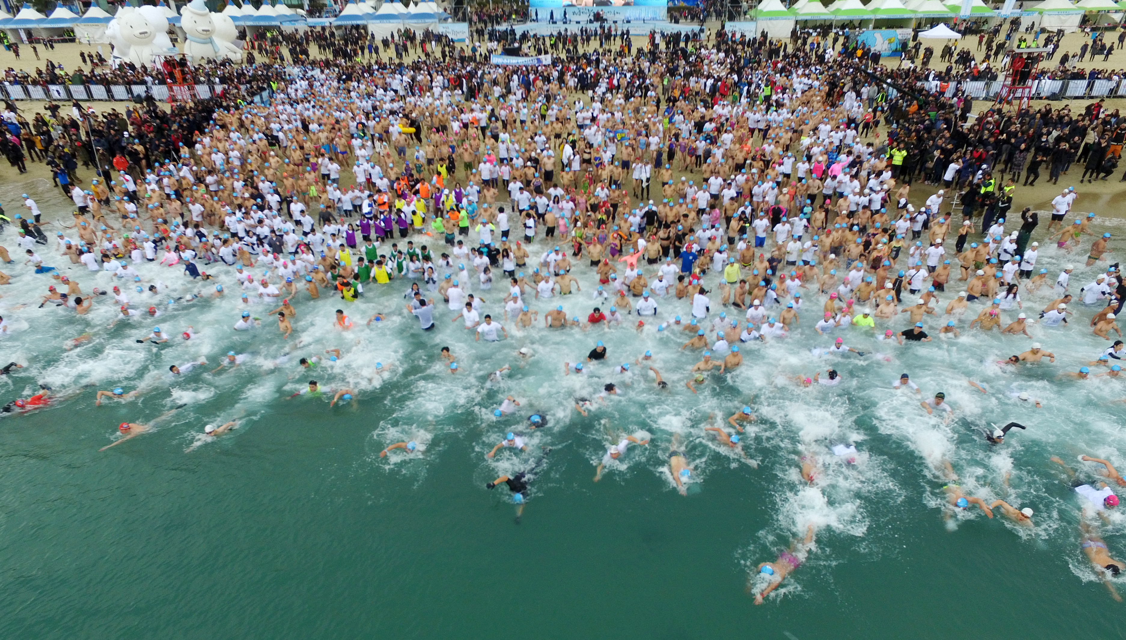 Participants can enjoy winter swimming under freezing weather in minus celsius conditions, just like a polar bear. The contest gives a participant an extraordinary memory by fighting against the fierce winter sea, while also providing a good opportunity to enjoy the beauty of the winter sea in Busan. The event is a representative winter festival in Busan and is held every January at Haeundae beach.